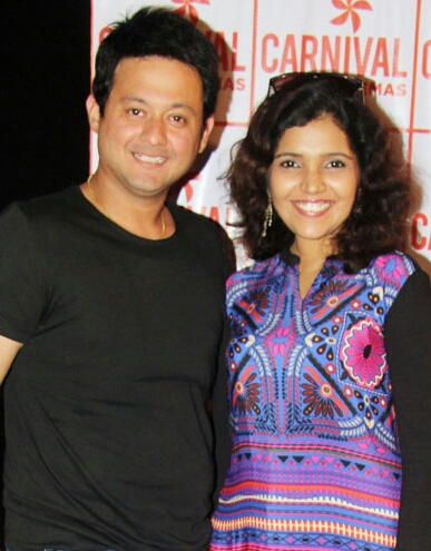 Mukta Barve and Swapnil Joshi at trailer launch of Marathi film 'Mumbai Pune Mumbai 2'